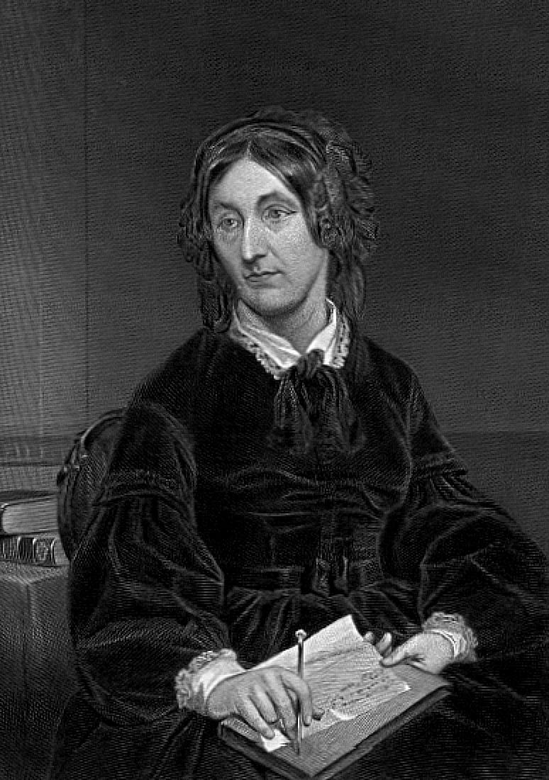 Unknown artist. From Evert A. Duykinck, Portrait Gallery of Eminent Men and Women in Europe and America (New York: Johnson, Wilson & Company, 1873) From Brooklyn Museum.